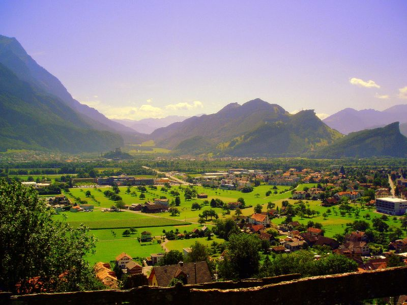 Sargans, Canton of St. Gallen, Switzerland